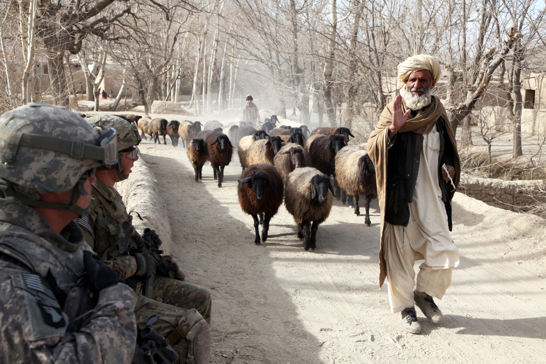 U.S. Army soldiers with Charlie Company, 2nd Battalion, 30th Infantry Regiment, 4th Brigade, 10th Mountain Division, look on as an Afghan local waves to them in the Baraki Barak District, Logar province, Afghanistan, Dec. 20, 2010. (Photo by: Pfc. Donald Watkins) Joint Combat Camera Afghanistan Location:COP BARAKI BARAK, AF Date Taken:12.20.2010 Related Photos